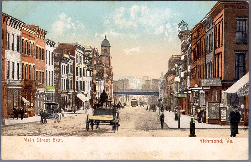 Looking east on Main Street, Richmond, Virginia, ca. 1901-1907.